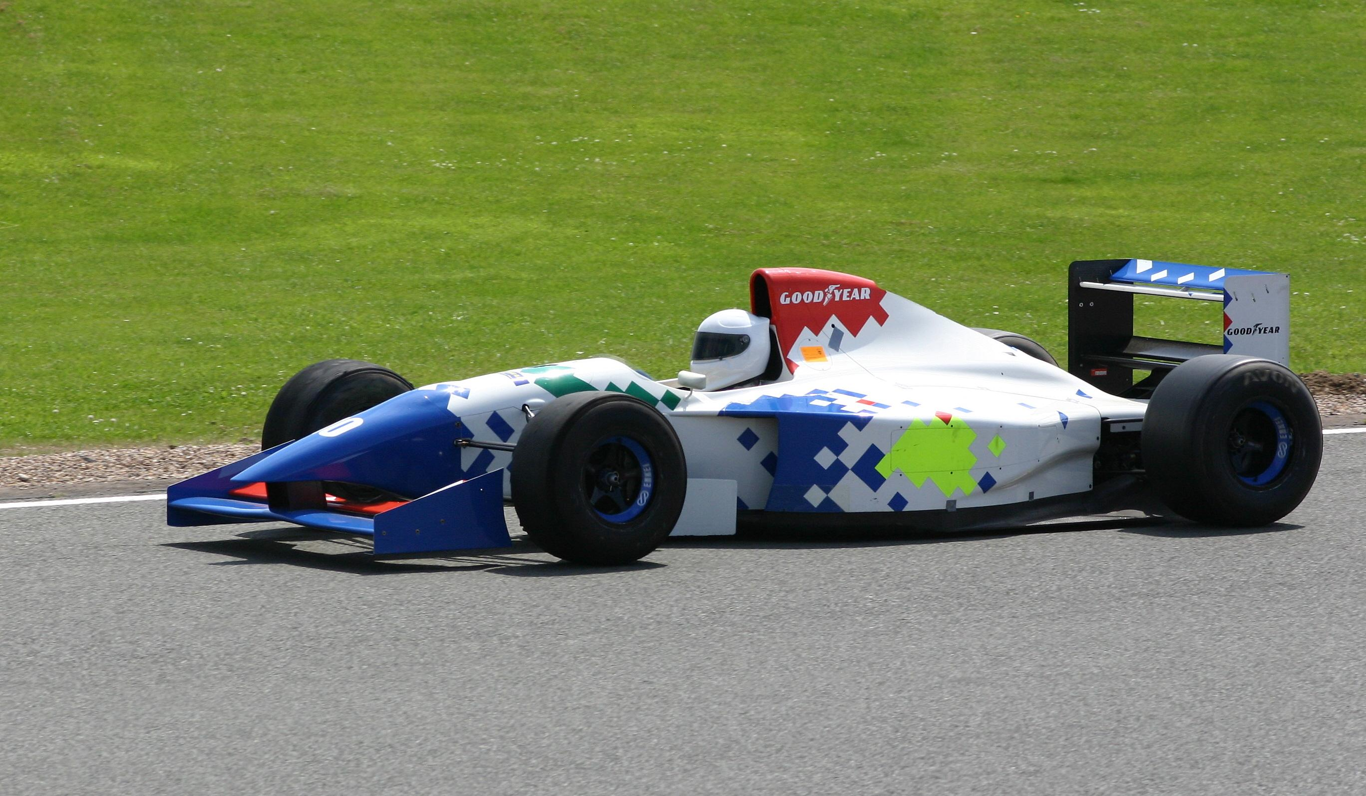 The Footwork FA15 at the 2008 Silverstone Classic race meeting.